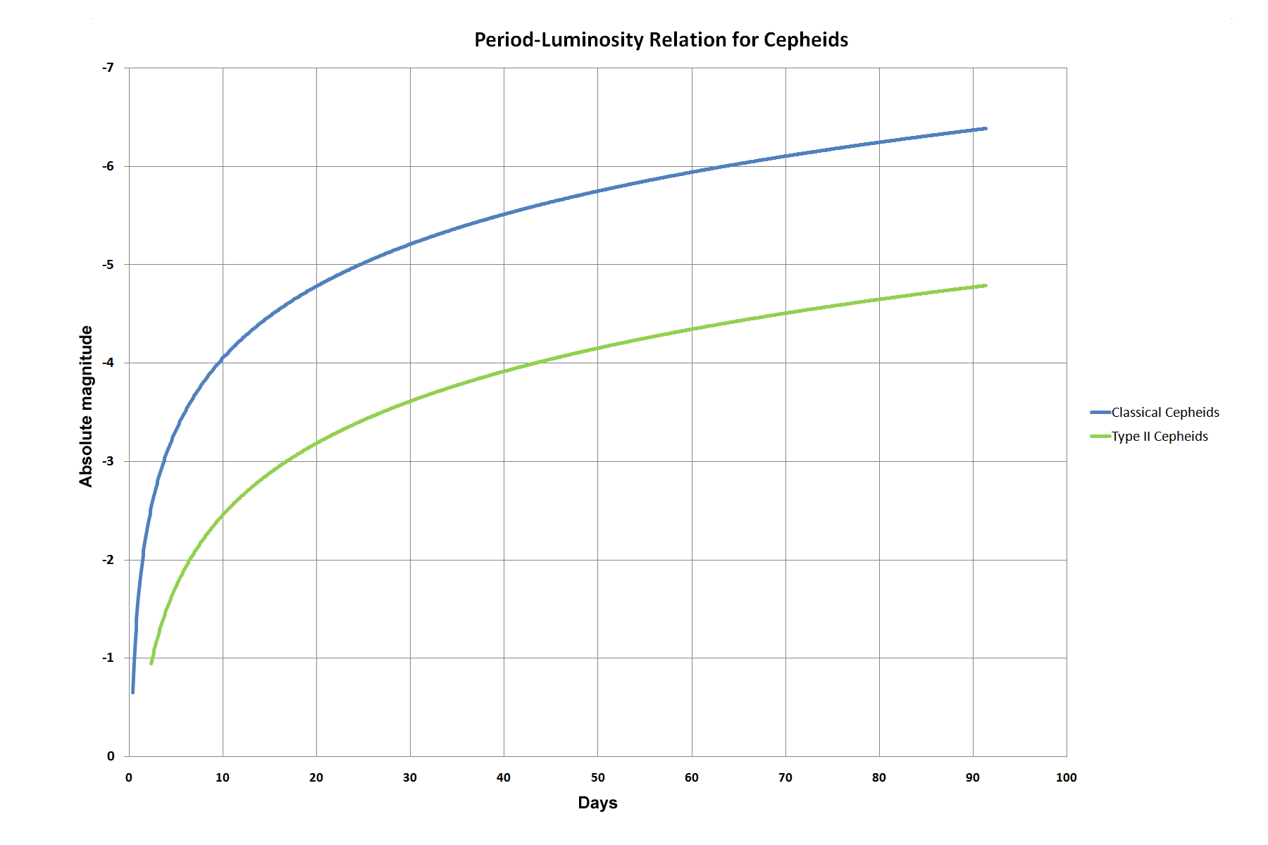 Graphical representation of period-luminosity relation for Cepheids. Gpraph was created from data found at English Wikipedia